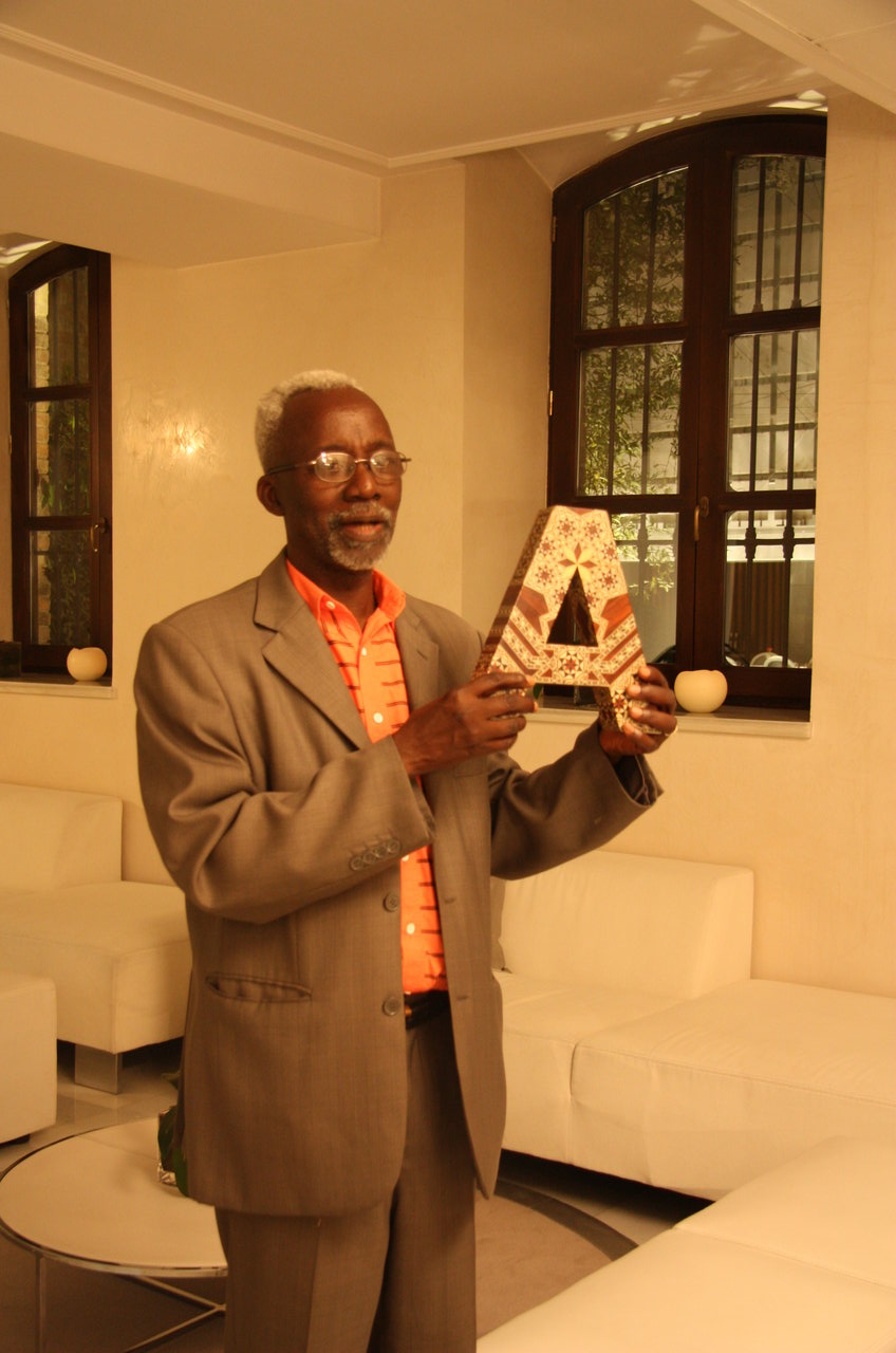 Souleymane Cissé receiving an award at Cines del Sur in 2009.